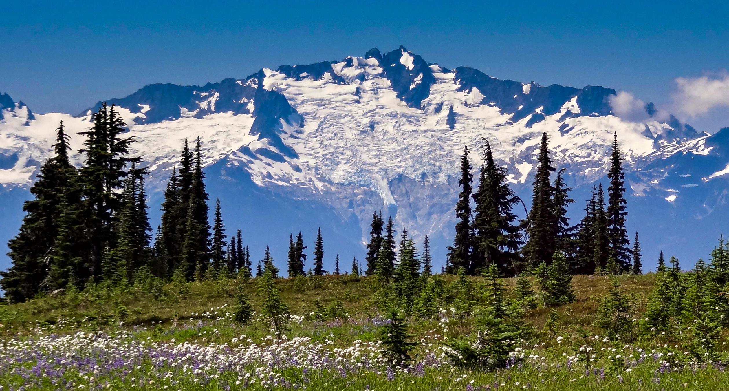 Whistler panorama